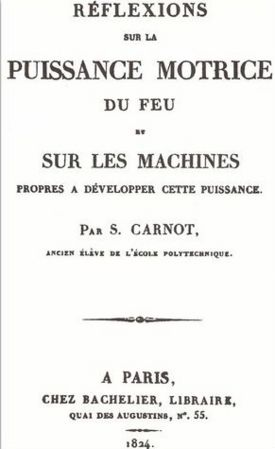 Title page of Réflexions sur la puissance motrice du feu, et sur les machines propres à dèvelopper cette puissance